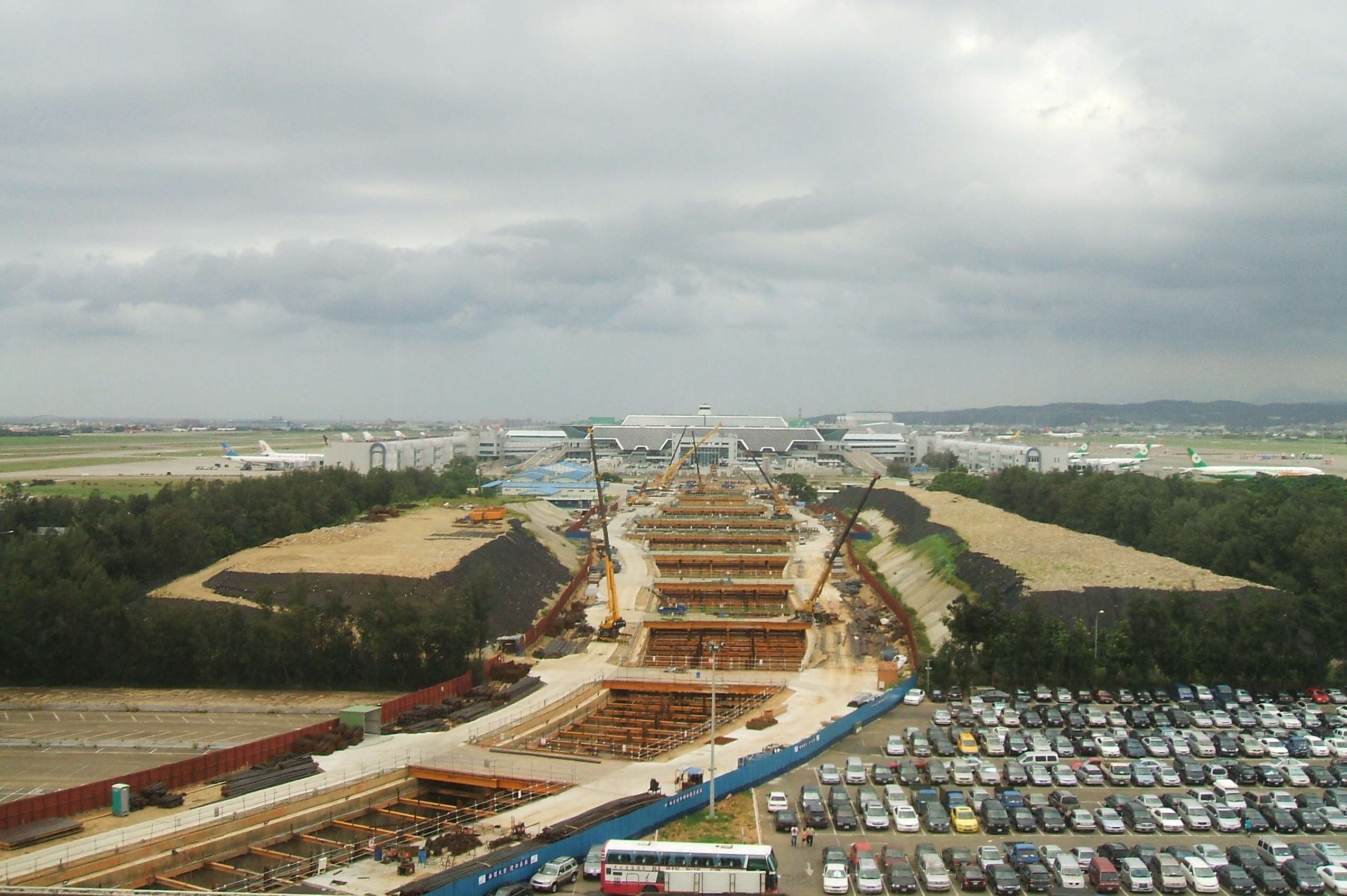 Taoyuan International Airport Access MRT System